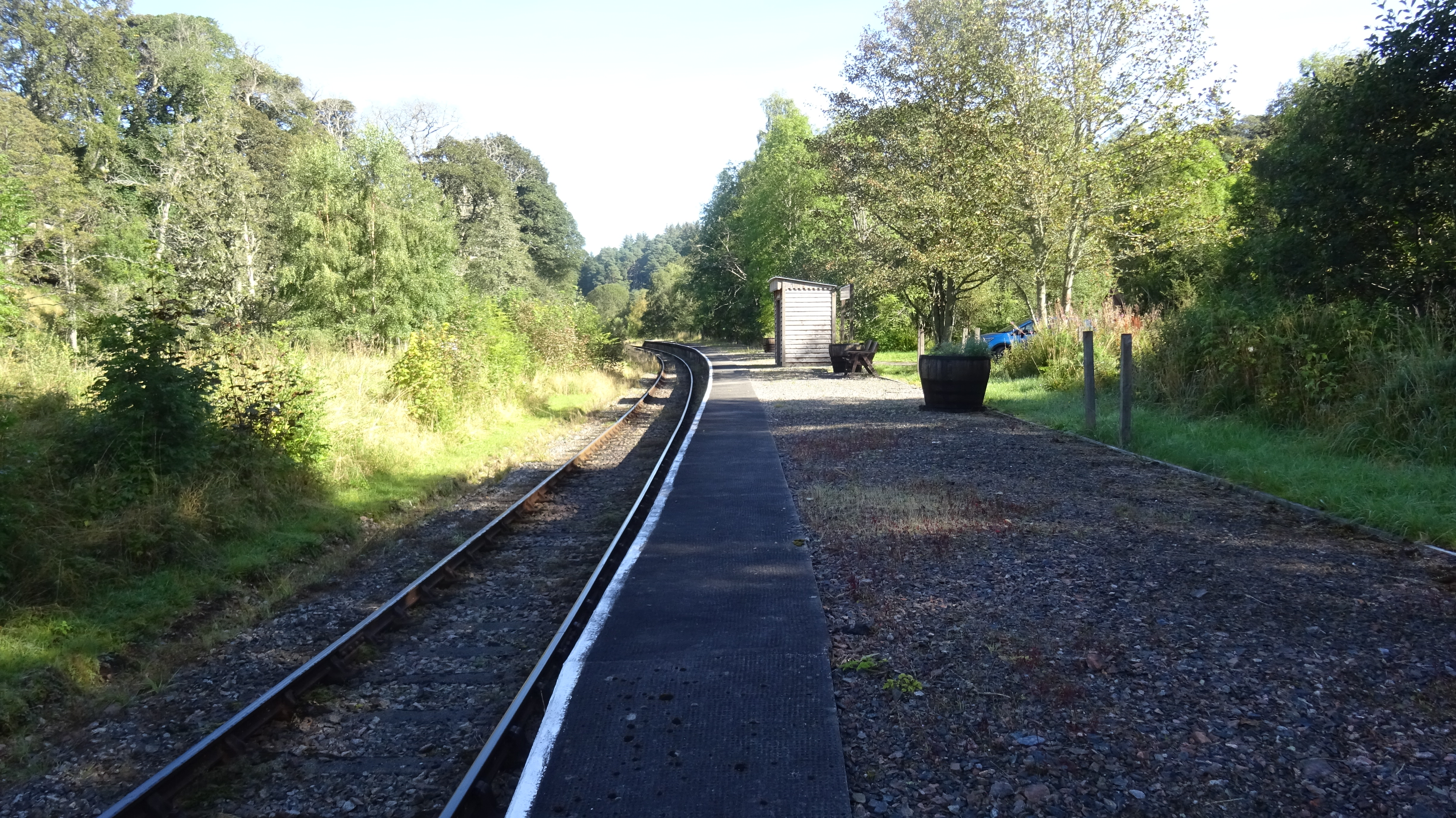 Drummuir railway station, Keith and Dufftown Railway. View north along the station platform towards Towiemore and Keith. Station closed by BR in 1968 and re-opened by the K&DR in 2003.